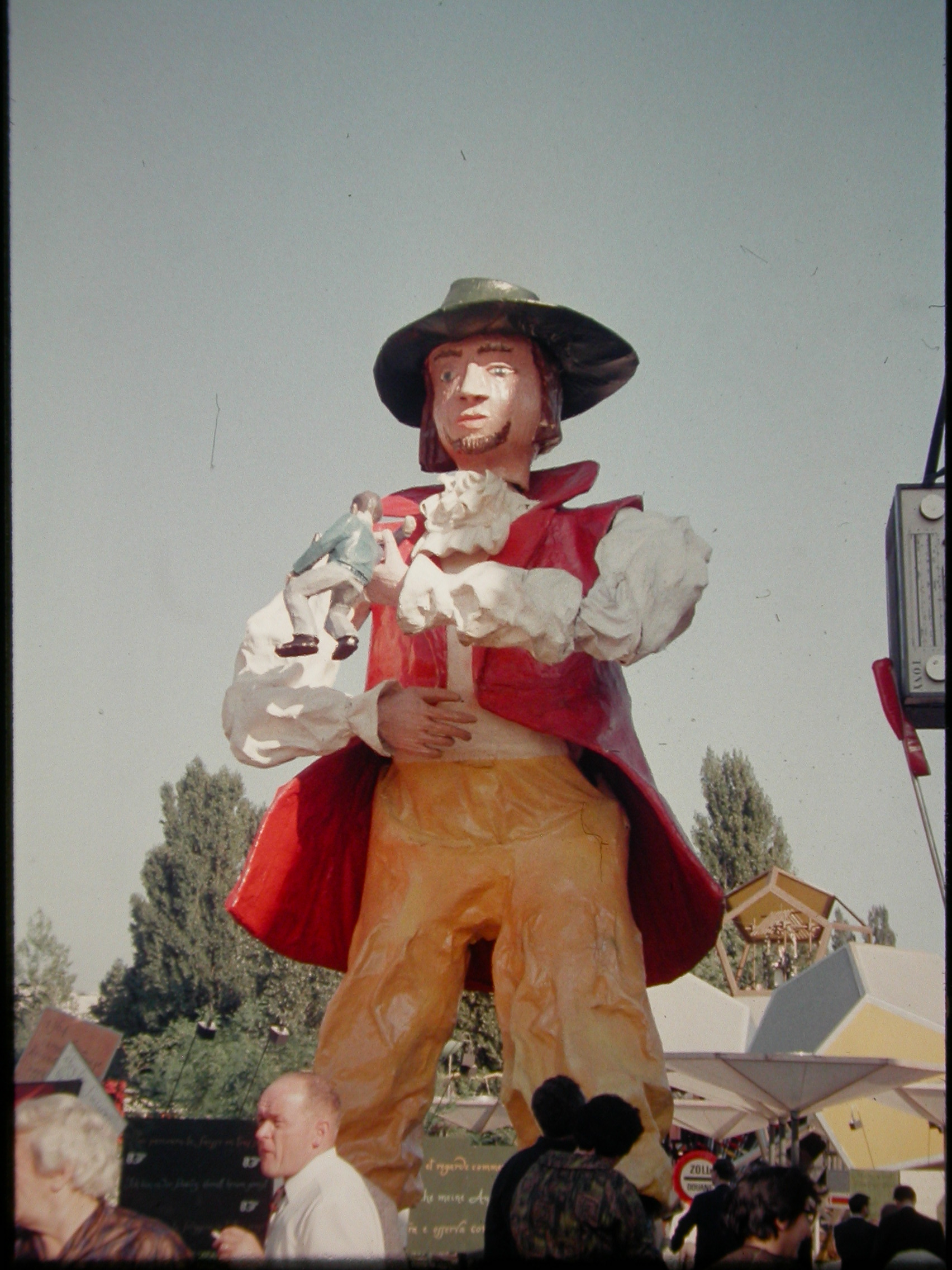 Pictures of Expo 1964 Lausanne between September 9th and 12th; Gulliver (moving)